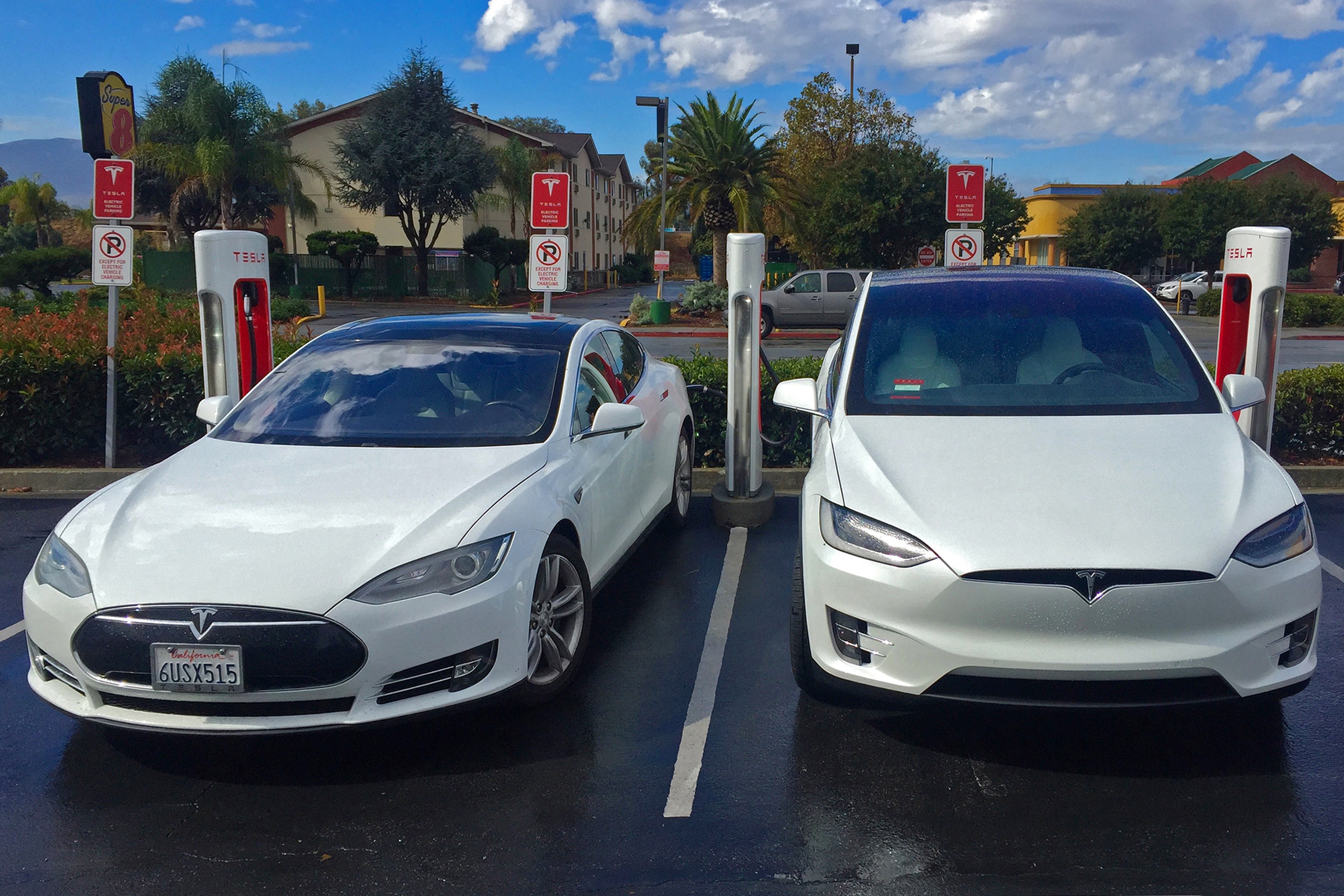 Tesla Model S and Model X side by side at the Gilroy Supercharger, California.